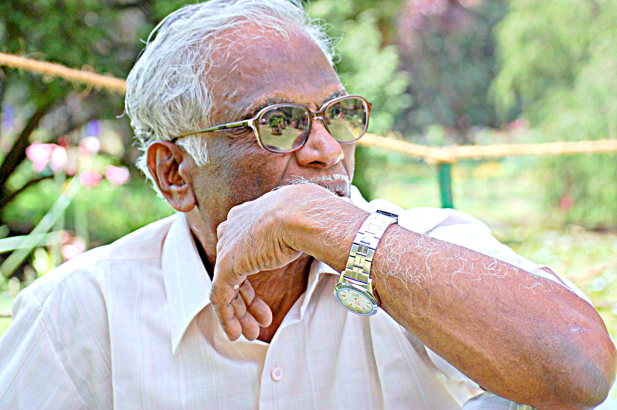 This is the famous author sri.purushothaman over siddha medicine.